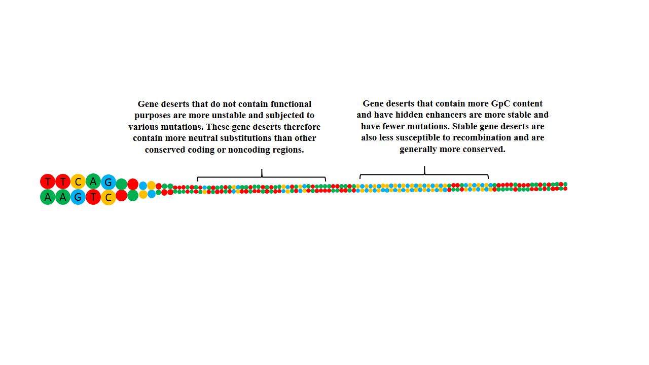 Stable gene deserts that house more essential genes are more readily conserved over time, passing this conservation to nearby genes. On the other hand, variable gene deserts with fewer essential genes are subjected to frequent SNPs that convert cytosine bases to tyrosine bases. Because the few essential genes in variable gene deserts are still conserved to a degree, most of these conversions are neutral. This leads to large separations between the essential genes in variable gene deserts.